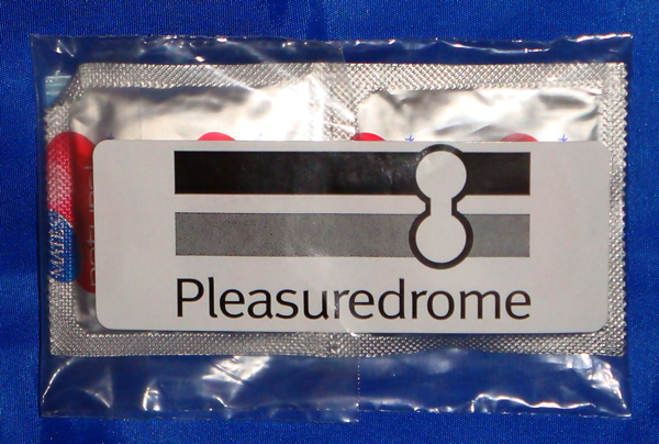 Condom and lube safer sex pack from Pleasuredrome sauna in London, UK. Given free on entry.